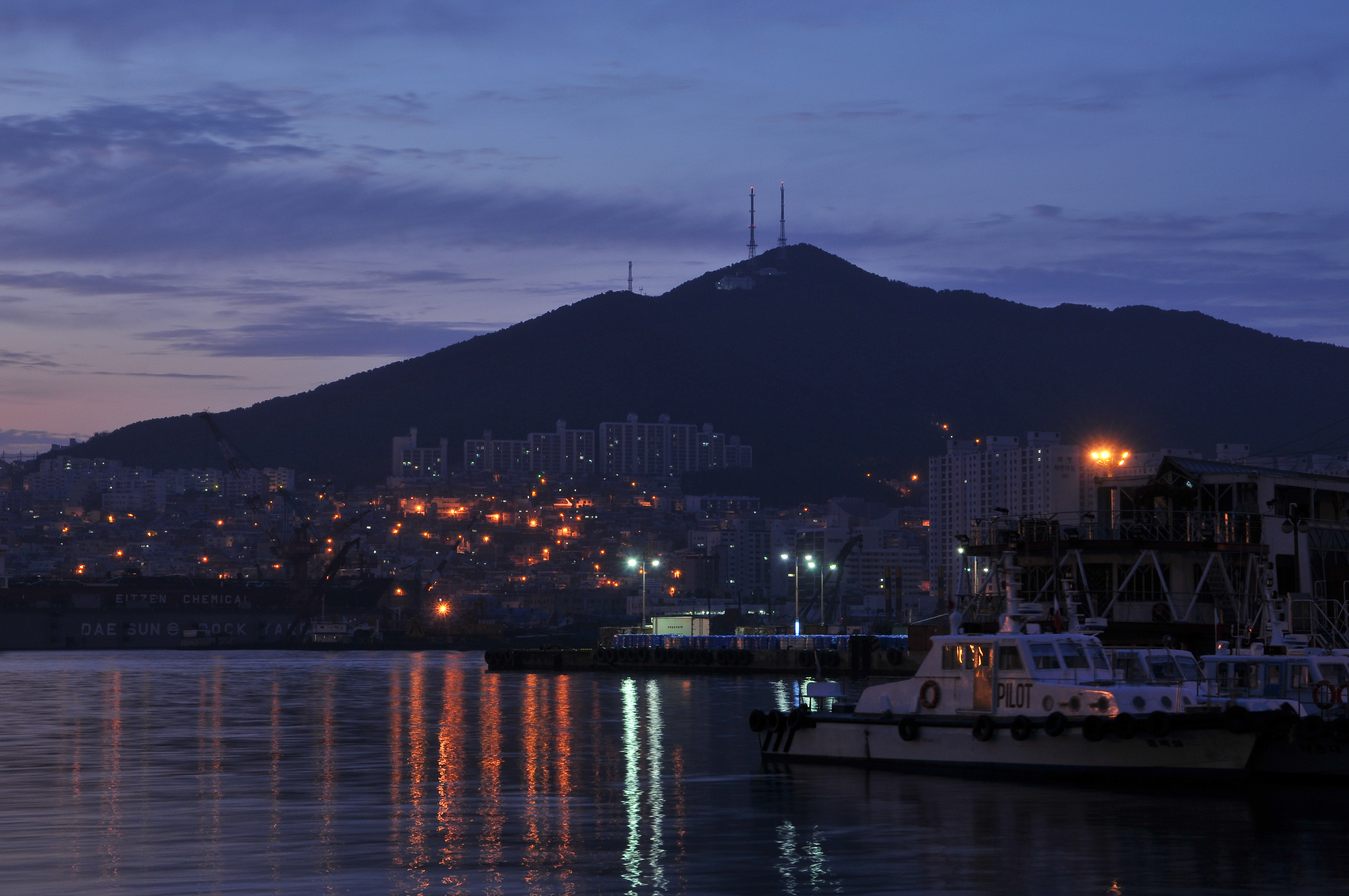 Youngdo-gu, Busan, South Korea. Photograph from Flickr; author Doo Ho Kim; license of cc-by-sa-2.0.